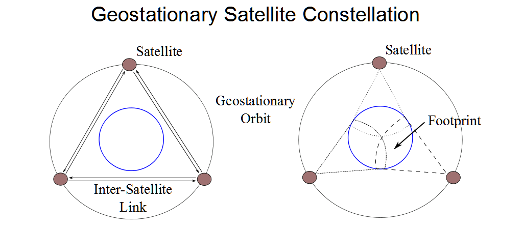 Sketch of a geostationary satellite constellation.